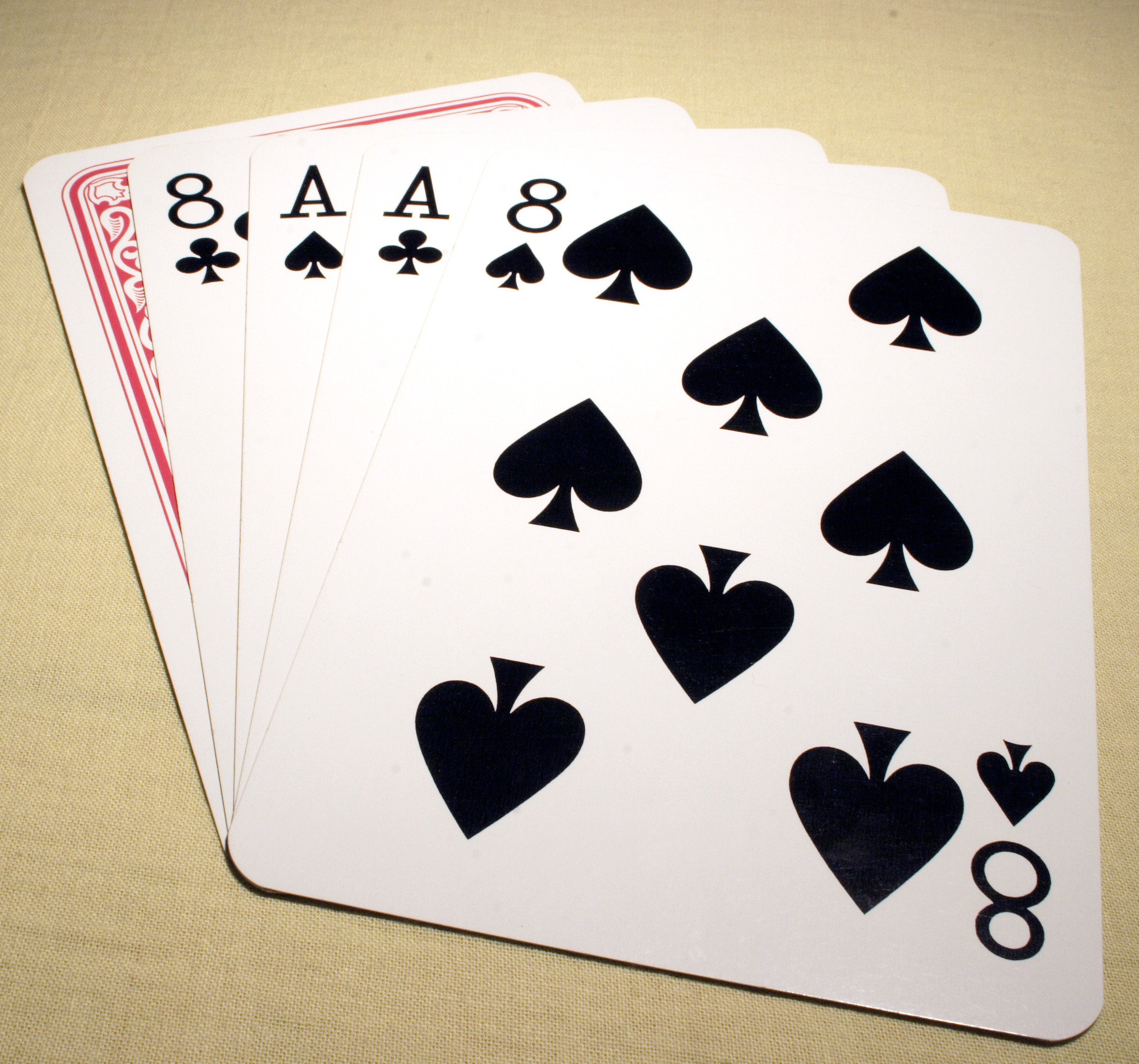 Dead man's hand, two pairs of aces and eights, the hand that wild Bill Hickock had when he was shot August 2, 1876. The fifth card was a diamond (jack or queen, according to Hickok's biographer, Joseph C. Rosa in Wild Bill Hickok: the man and his myth, 1996, University Press of Kansas, ISBN 0-7006-0773-0, p. 194).